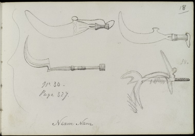 A selection of Neam Nam (Ruga) implements